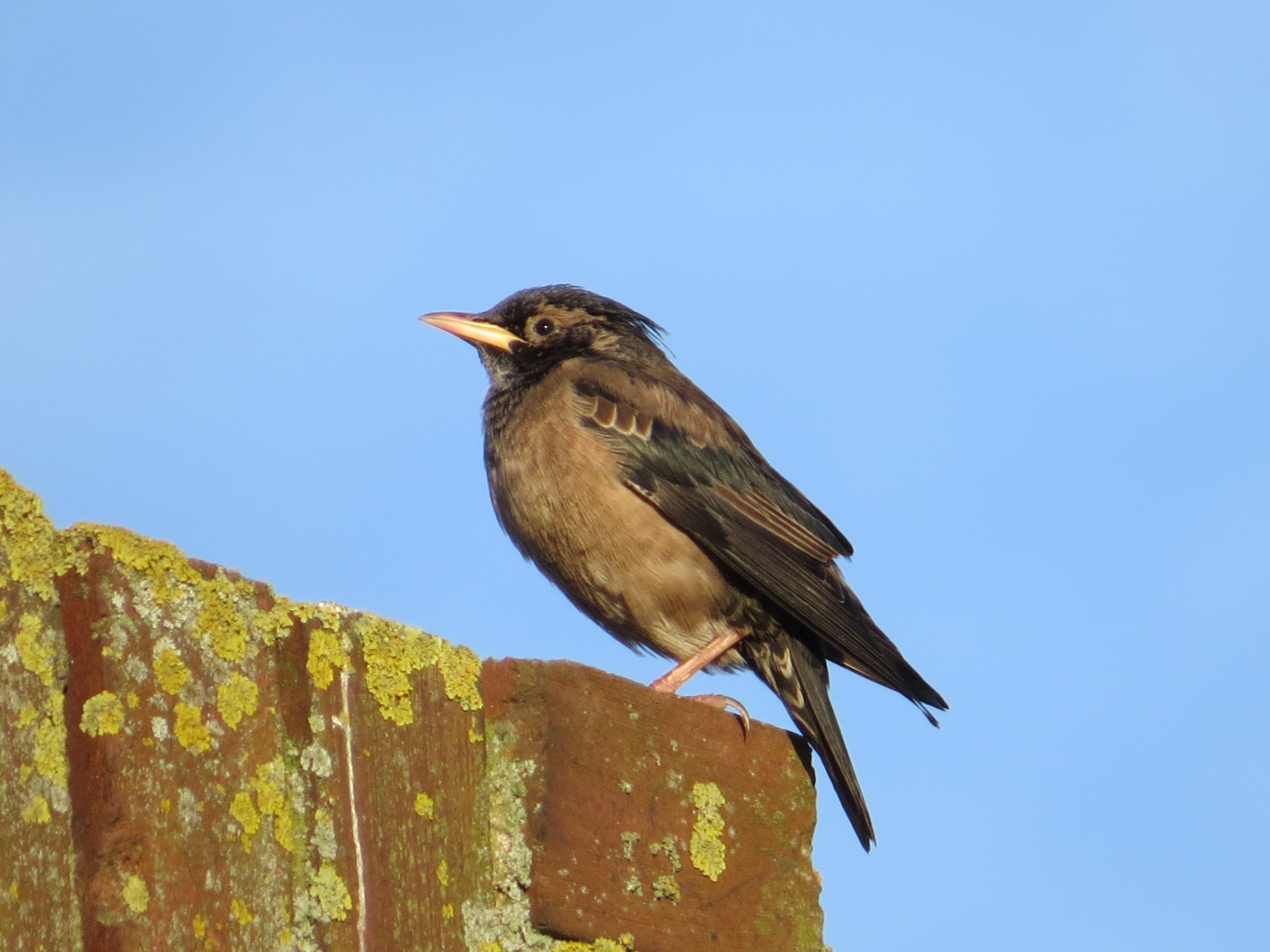 Rosy Starling Pastor roseus first-winter, Prudhoe, Northumberland, UK.